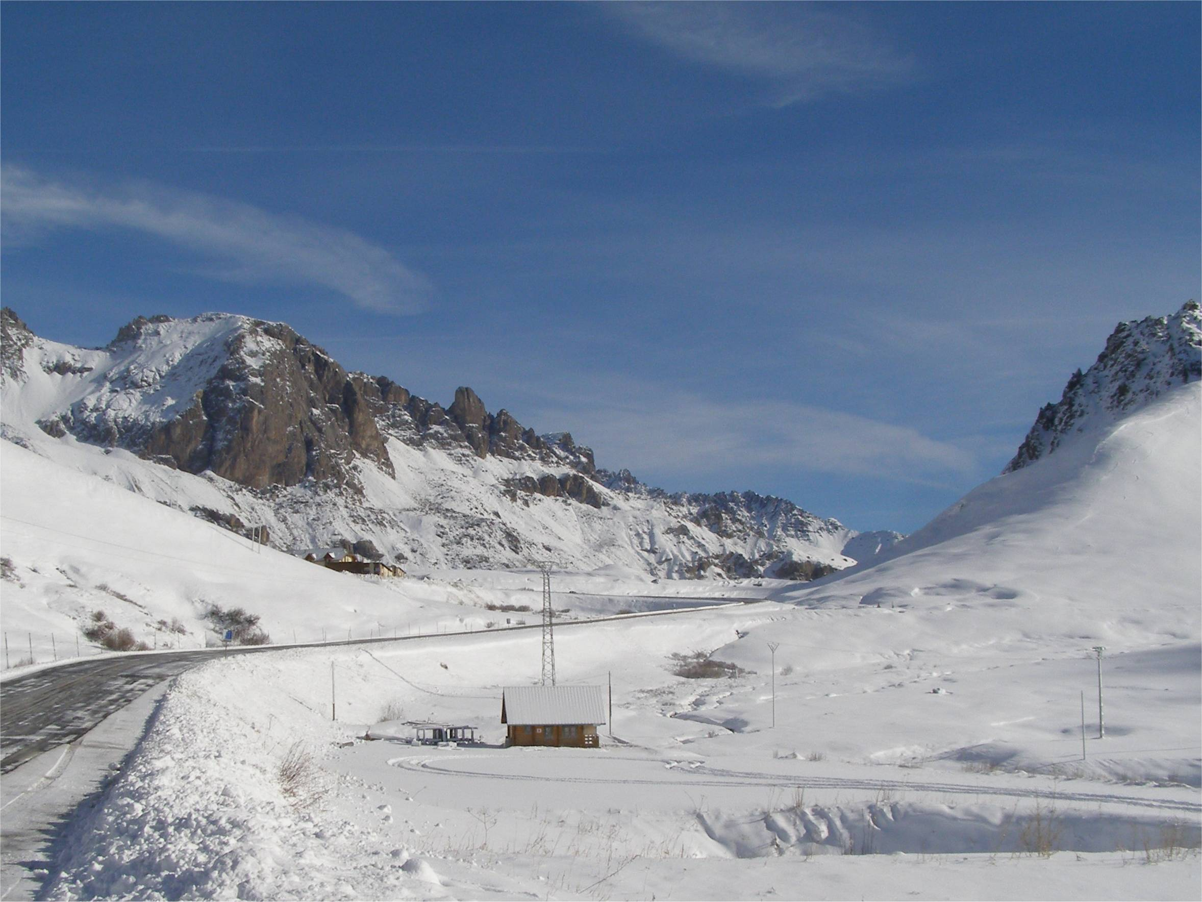 Col du Lautaret road pass taken on the 20th November 2006 by David George